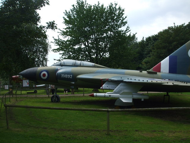 Gloster Javelin XH892 (FAW9R), left side view, at Norfolk and Suffolk Aviation Museum, Flixton, Suffolk. See also File:Gloster Javelin at Flixton Aviation Museum 1430588 56169334-by-Ashley-Dace.jpg